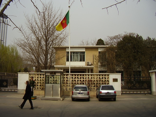 Photograph of the Cameroon Embassy in Beijing